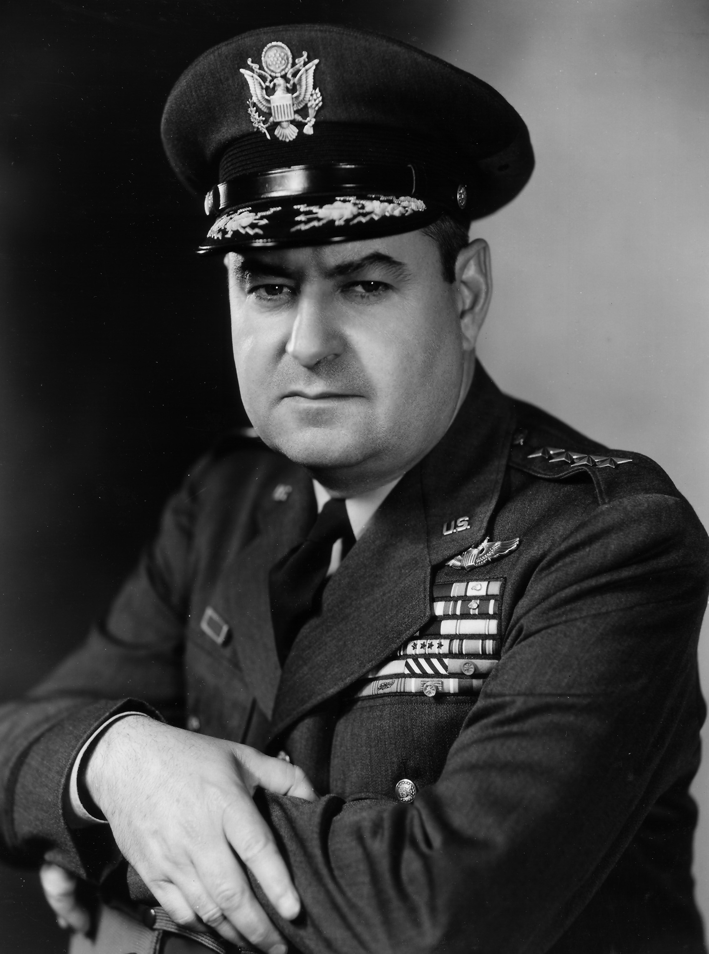 Curtis LeMay photographed on an unspecified date in the 1950s. Lemay received his 4th star in October of 1951 at the age of 44